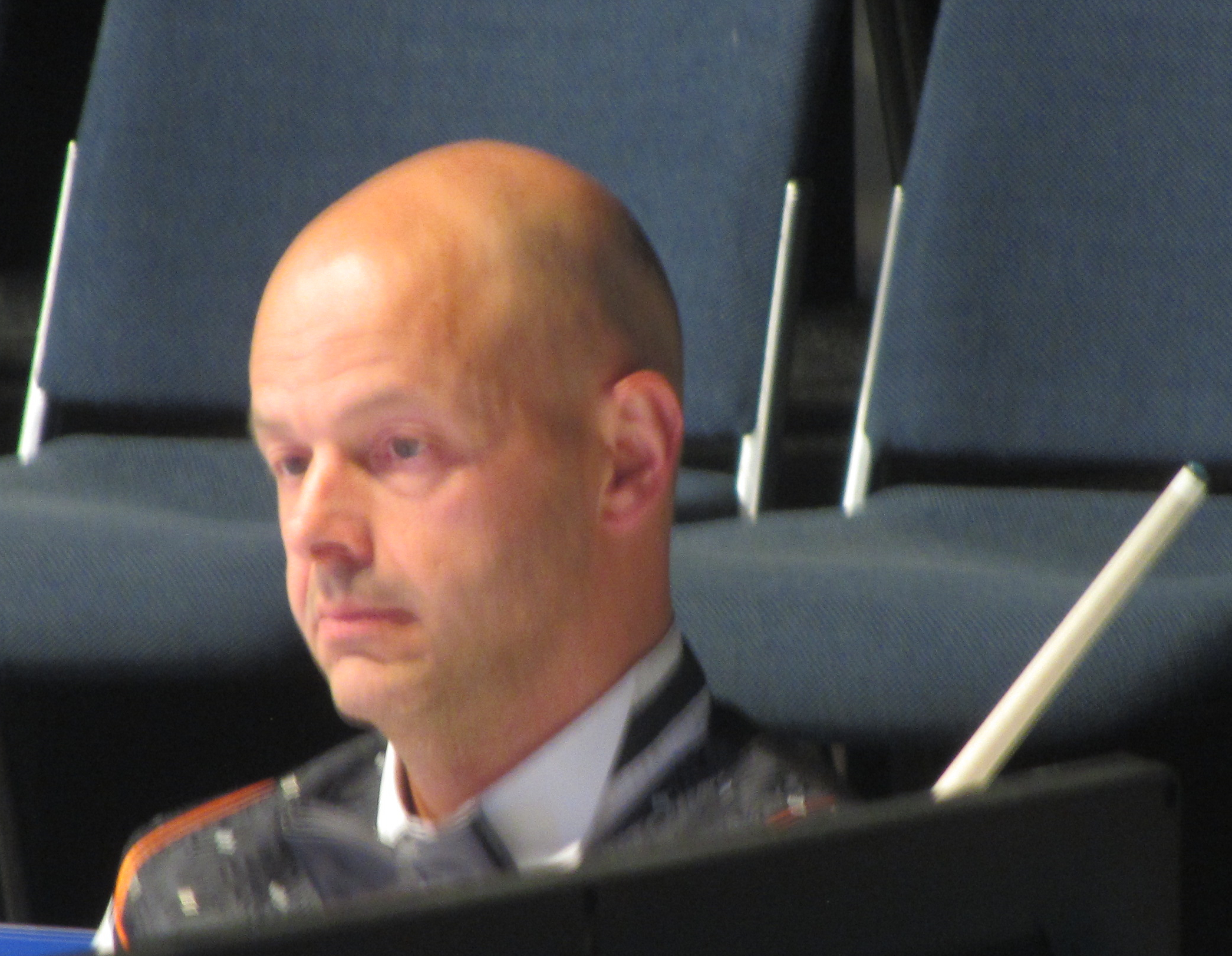 Portrait of German Christian Rudolph at the 2013 European Championship in Brandenburg/Havel, Germany. Cropped from Carom_Billiards_EC_Brandenburg_Havel-GER_2013-04-20_27-de_Bruijn.JPG